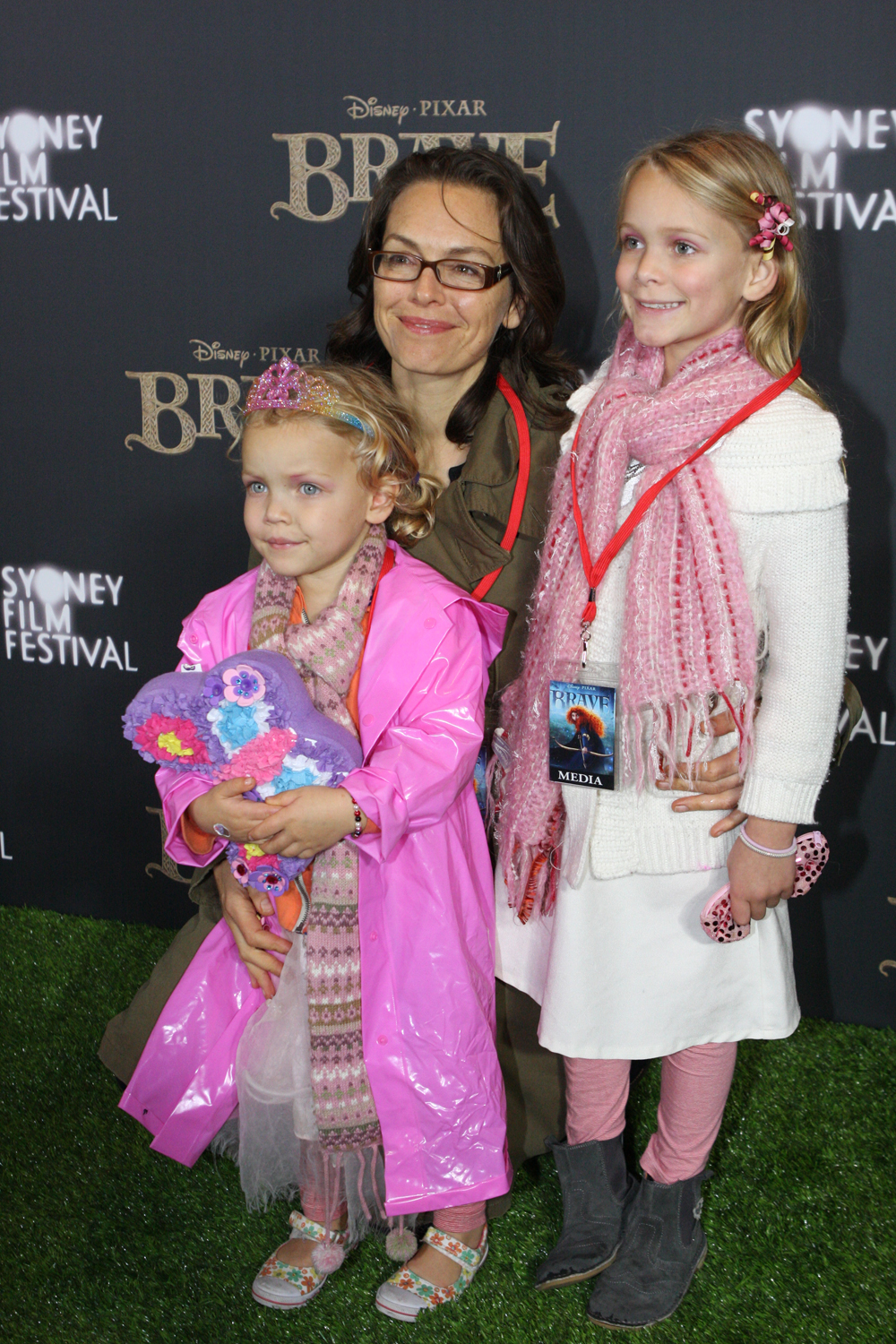 Billy Connolly in Sydney, Australia for Brave Red Carpet Event Comic genius and actor Billy Connolly is in town and he plays a large hairy Scotsman in Disney Pixar latest release Brave. Rain didn't stop fans and media lining up the red carpet at George Street's Event Cinemas to meet the 69-year-old comedian, a regular visitor to our shores. Connolly shares his voice to a 10th Century King named Fergus in the new Disney/Pixar collaboration, about a rebellious, flame-haired princess (Kally Macdonald) who rails against her intended fate - to unexpected result. Sydney Film Festival director Nashen Moodley described Brave, set against the dramatic backdrop of the Scottish Highlands, as "a wonderfully feminist story about a young princess who defies the rules to find her own bravery and do something incredible." Promo... Determined to make her own path in life, Princess Merida defies a custom that brings chaos to her kingdom. Granted one wish, Merida must rely on her bravery and her archery skills to undo a beastly curse. Directors: Mark Andrews, Brenda Chapman Writers: Mark Andrews (screenplay), Steve Purcell (screenplay Stars: Kelly Macdonald, Billy Connolly and Emma Thompson Websites Brave official website Disney (Australia) Billy Connolly official website Event Cinemas Eva Rinaldi Photography Flickr Eva Rinaldi Photography